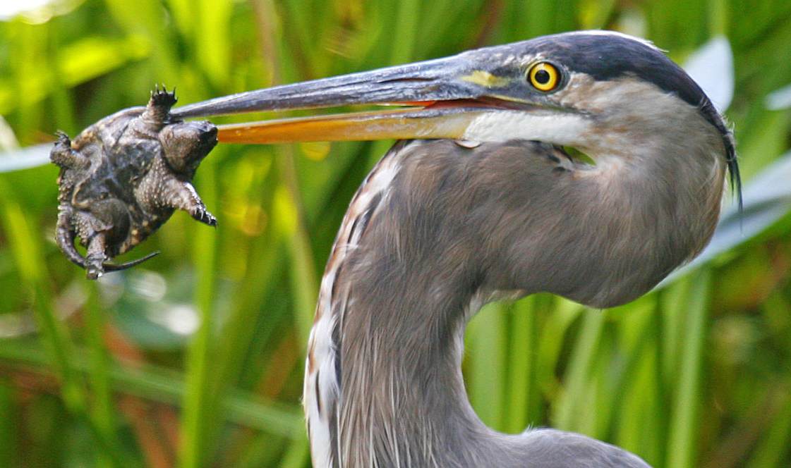 Great Blue Heron (Ardea herodias) eating a Common Snapping Turtle (Chelydra serpentina) hatchling.